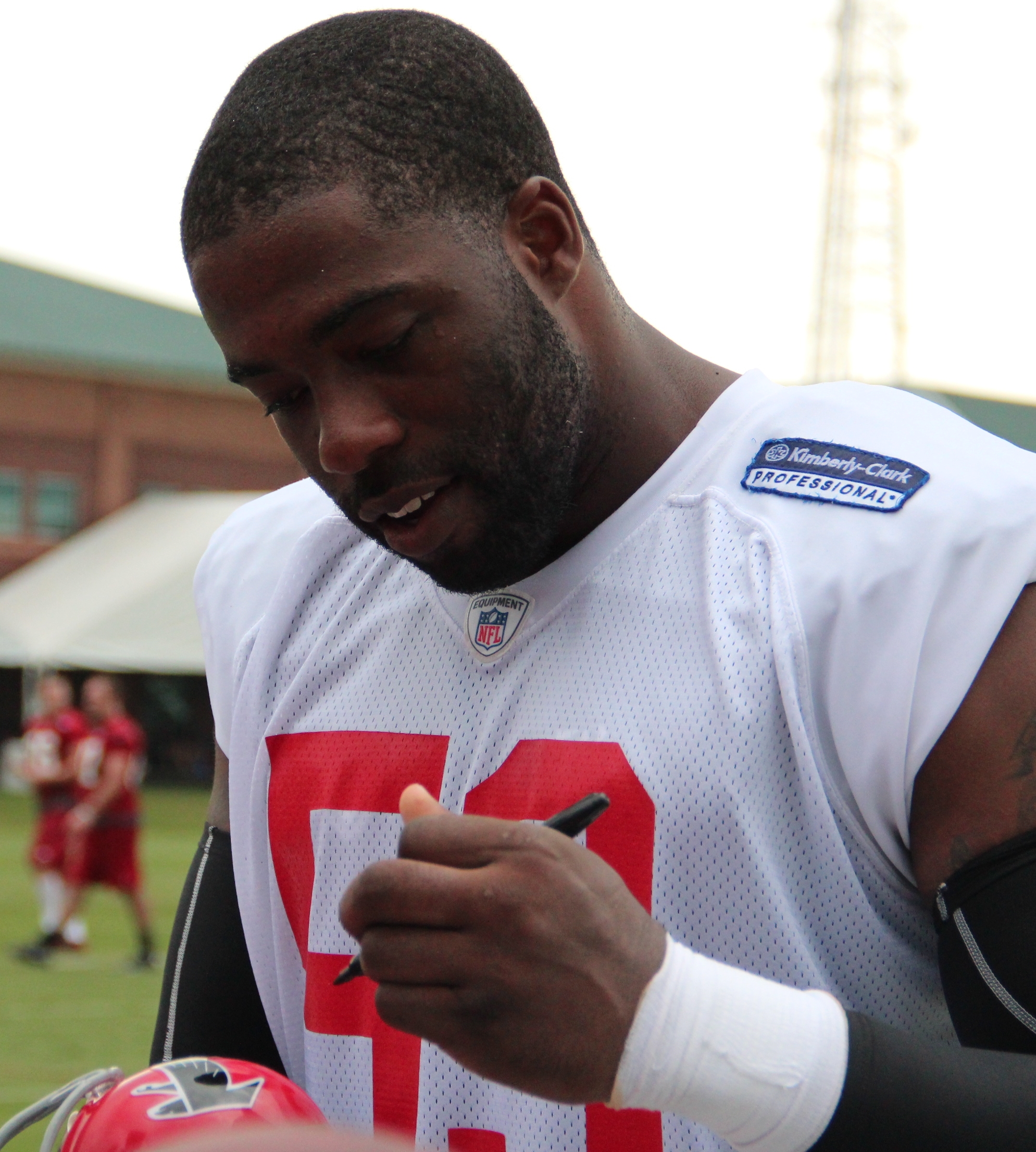 Brian Banks, 2013